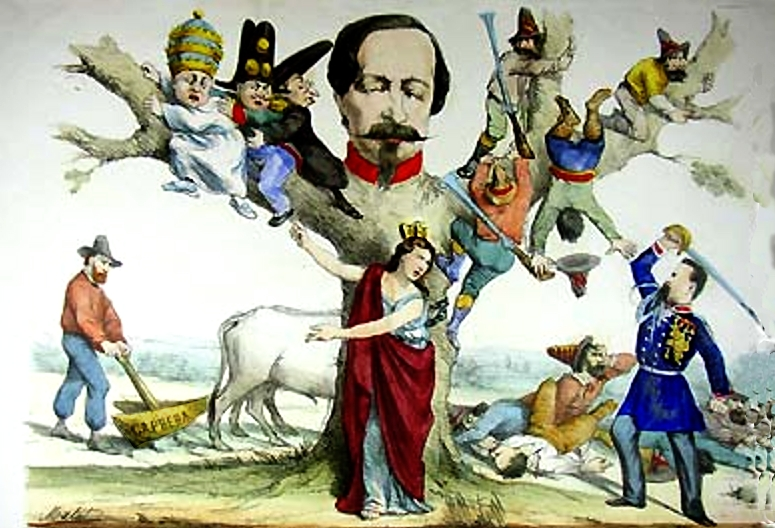 Allegory of Italy internal political assets, post 1861 and pre 1870 , Napoleon III, Pope Pius IX, Garibaldi as Cincinnatus, brigants, priest and Neapolitan noble as "pazzariello"